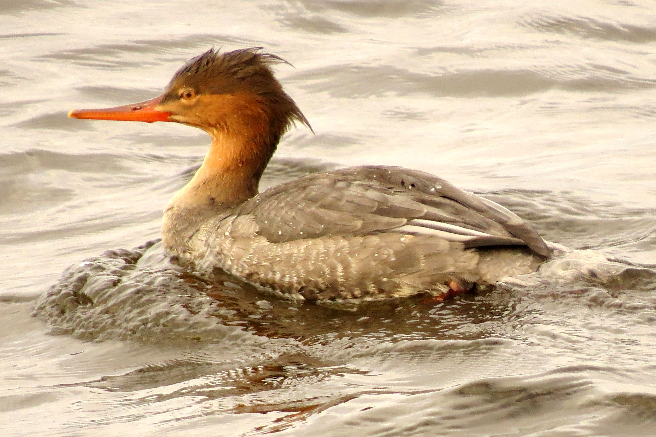 Red-breasted Merganser (Mergus serrator), female, Brittania Beach, Ottawa, Ontario, Canada